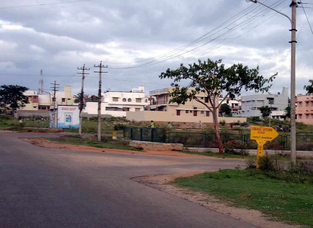 Snakeshyam road